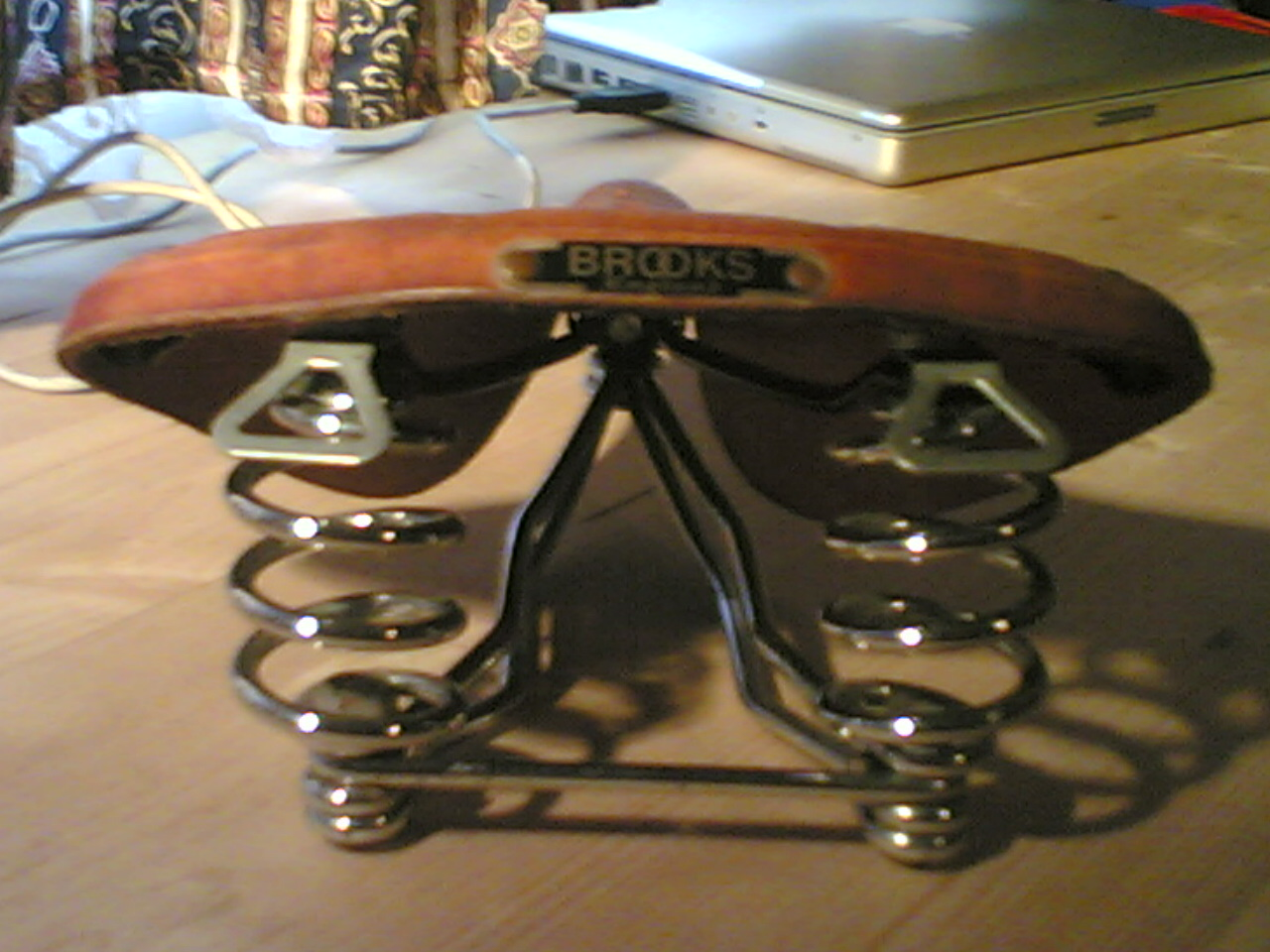 Detail picture of a Brooks B-67 bicycle saddle showing the springs and the nameplate